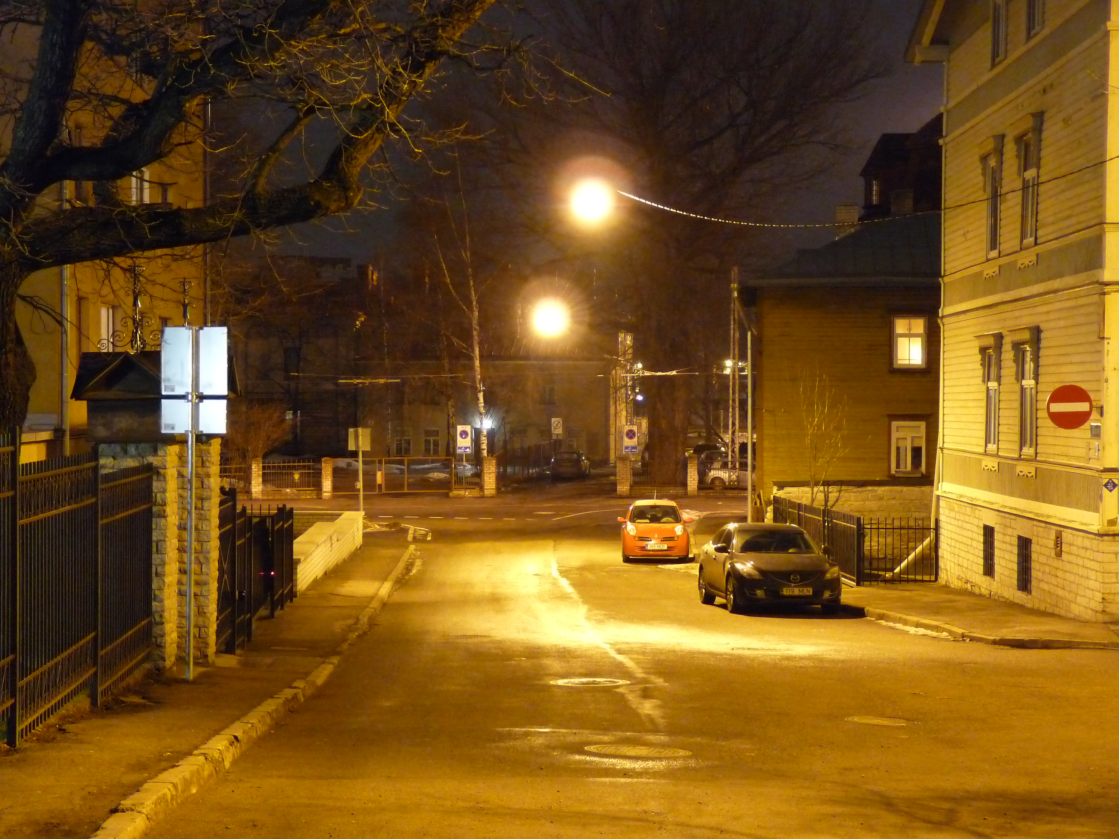 Suve street in Tallinn, Estonia